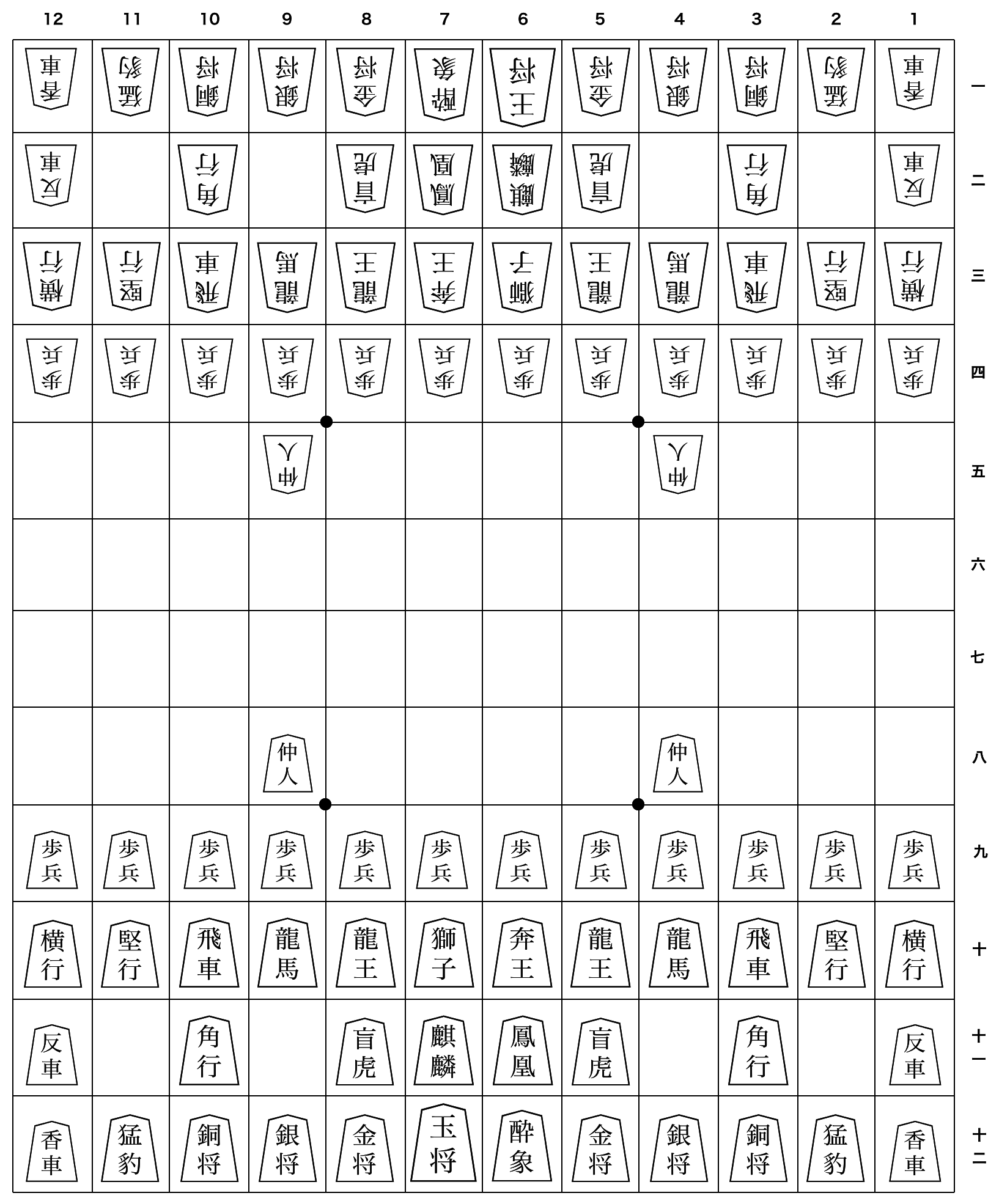 Initial board setup of Chu shogi, made by myself, Krun, using OmniGraffle. The pieces were made with Adobe Illustrator.